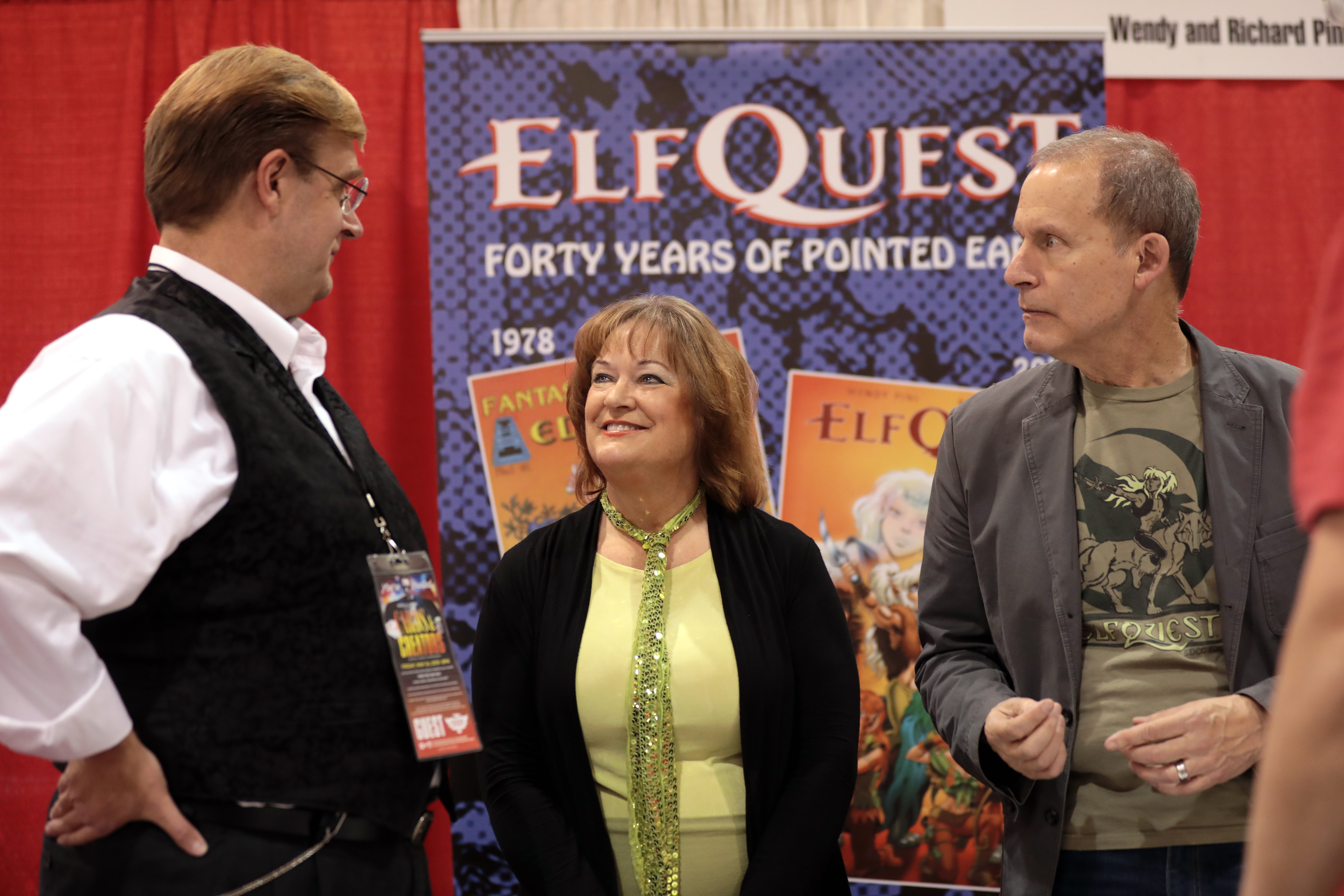 James A. Owen, Wendy Pini and Richard Pini speaking at the 2019 Phoenix Fan Fusion at the Phoenix Convention Center in Phoenix, Arizona.